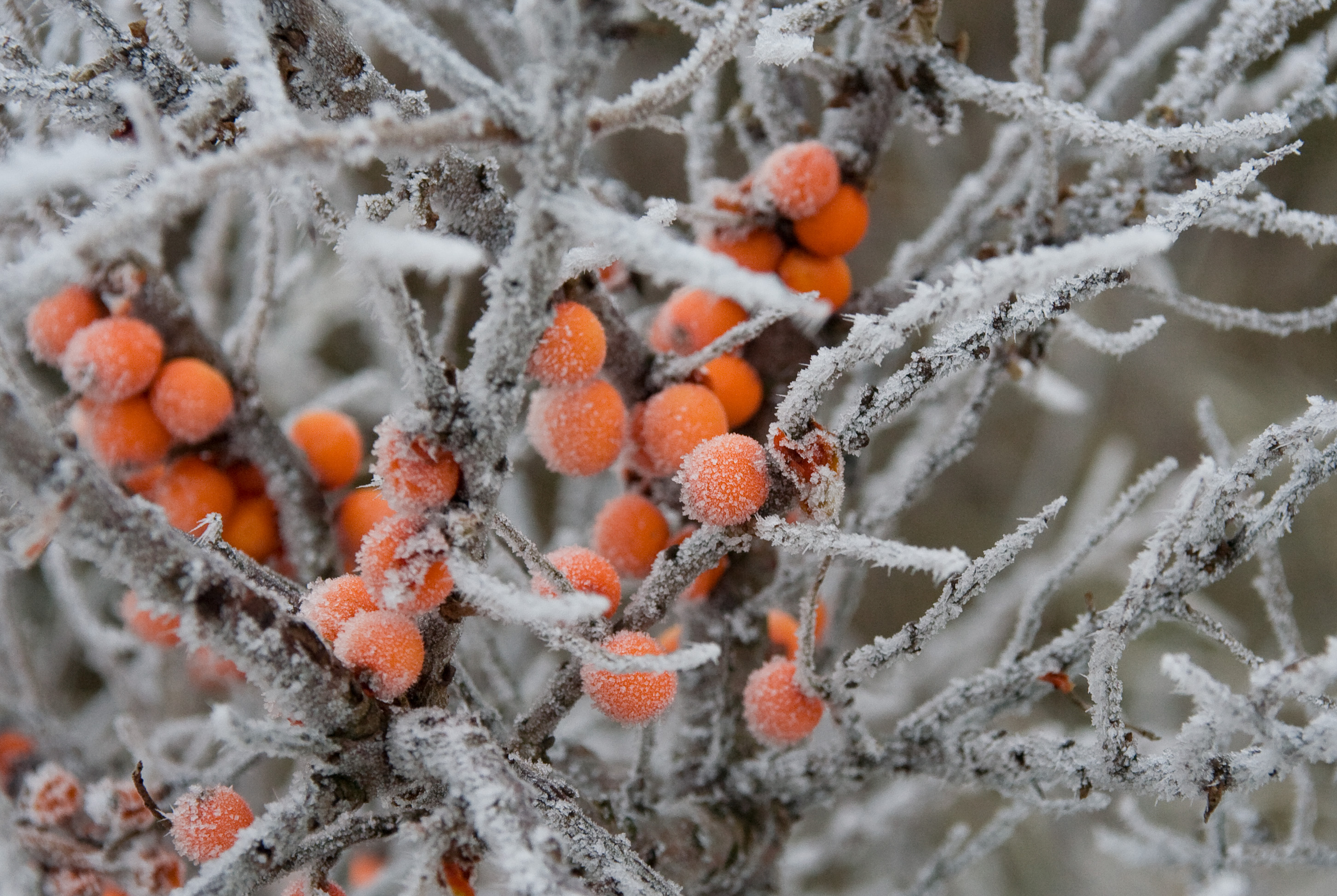 Hippophae rhamnoides